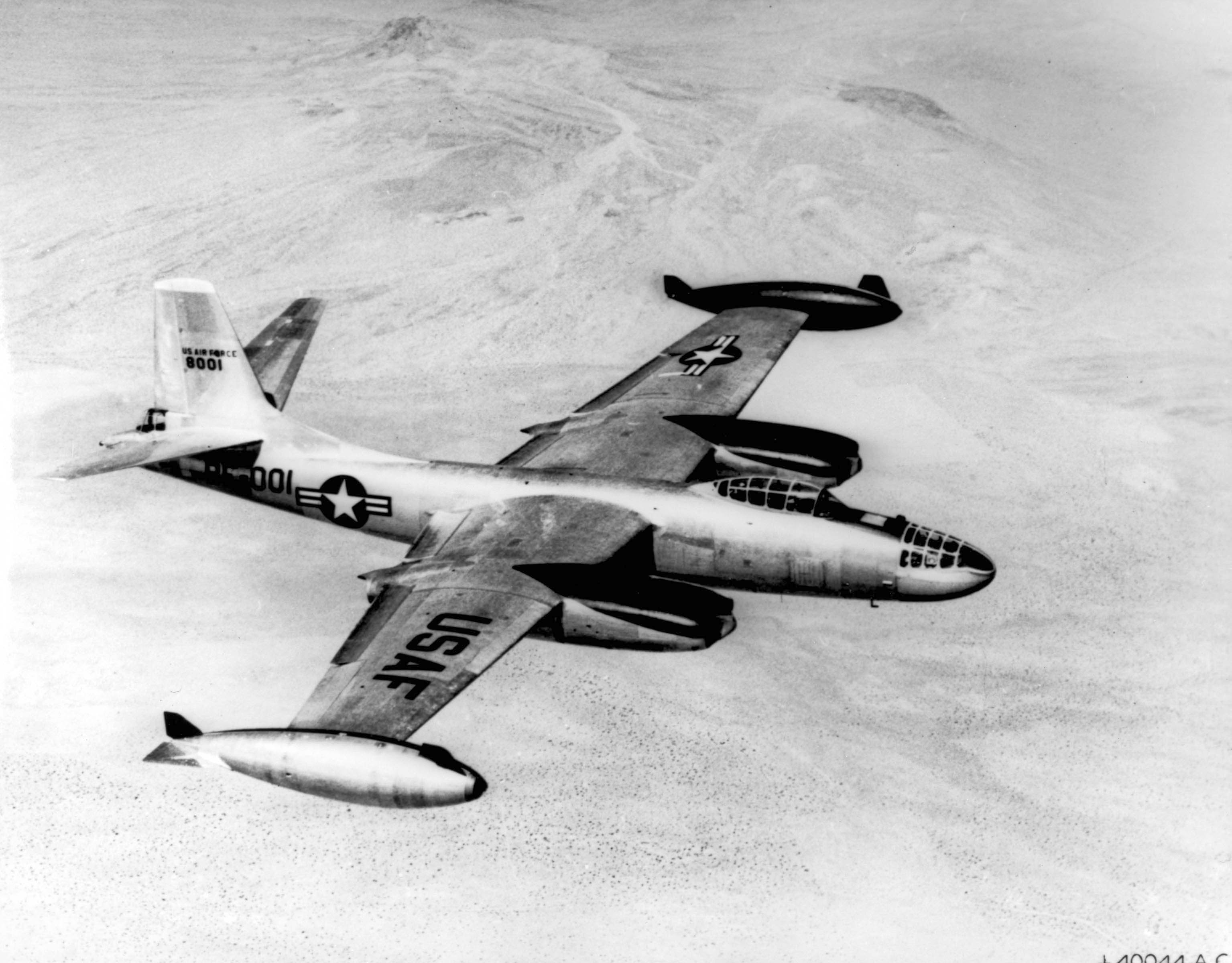 A U.S. Air Force North American B-45C Tornado (S/N 48-001) in flight.